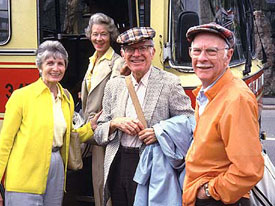 Frank Thomas (middle) with best friend Ollie Johnston and their wives, visiting Helsinki